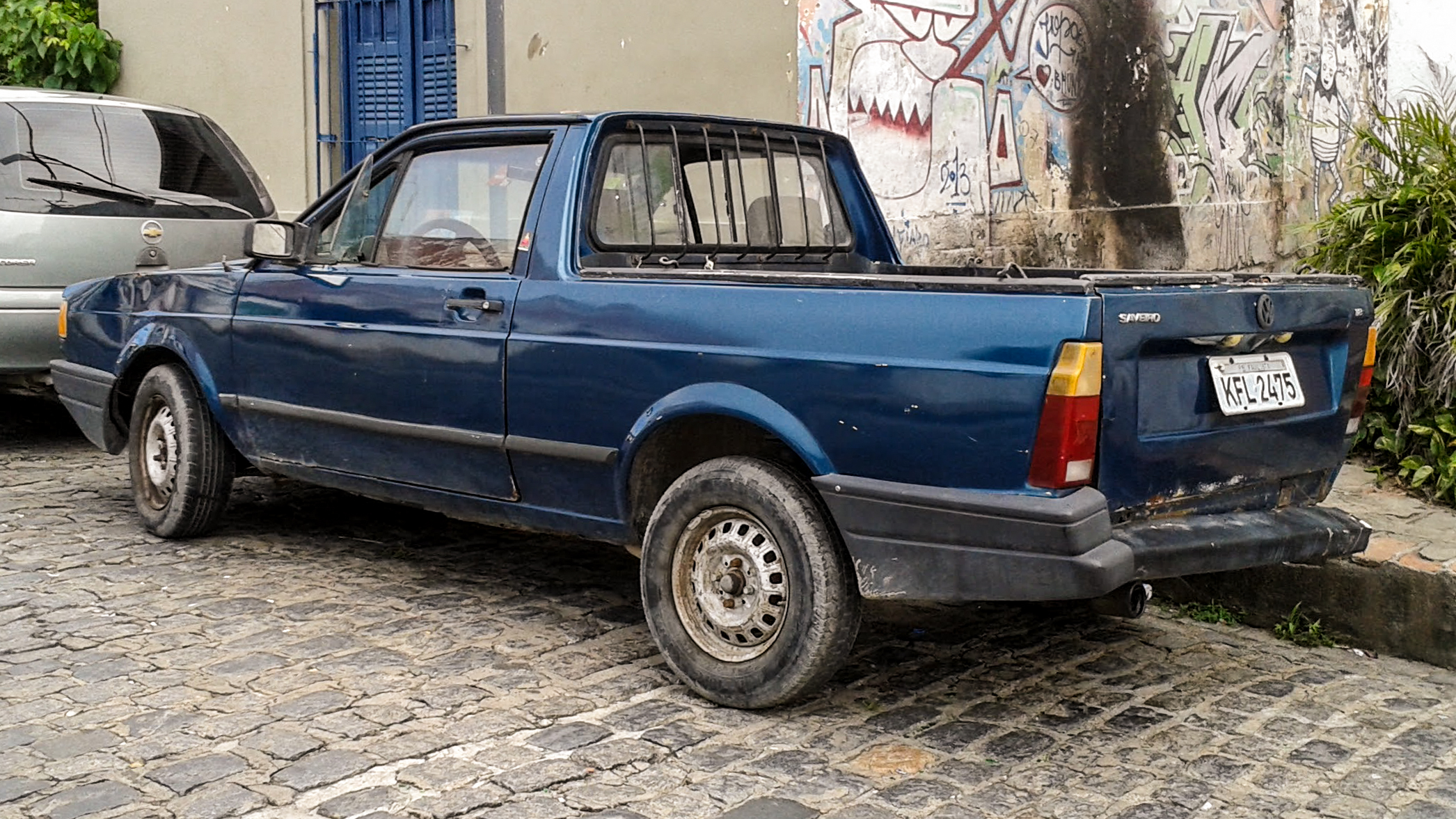 Volkswagen Saveiro Mk 1 in Olinda